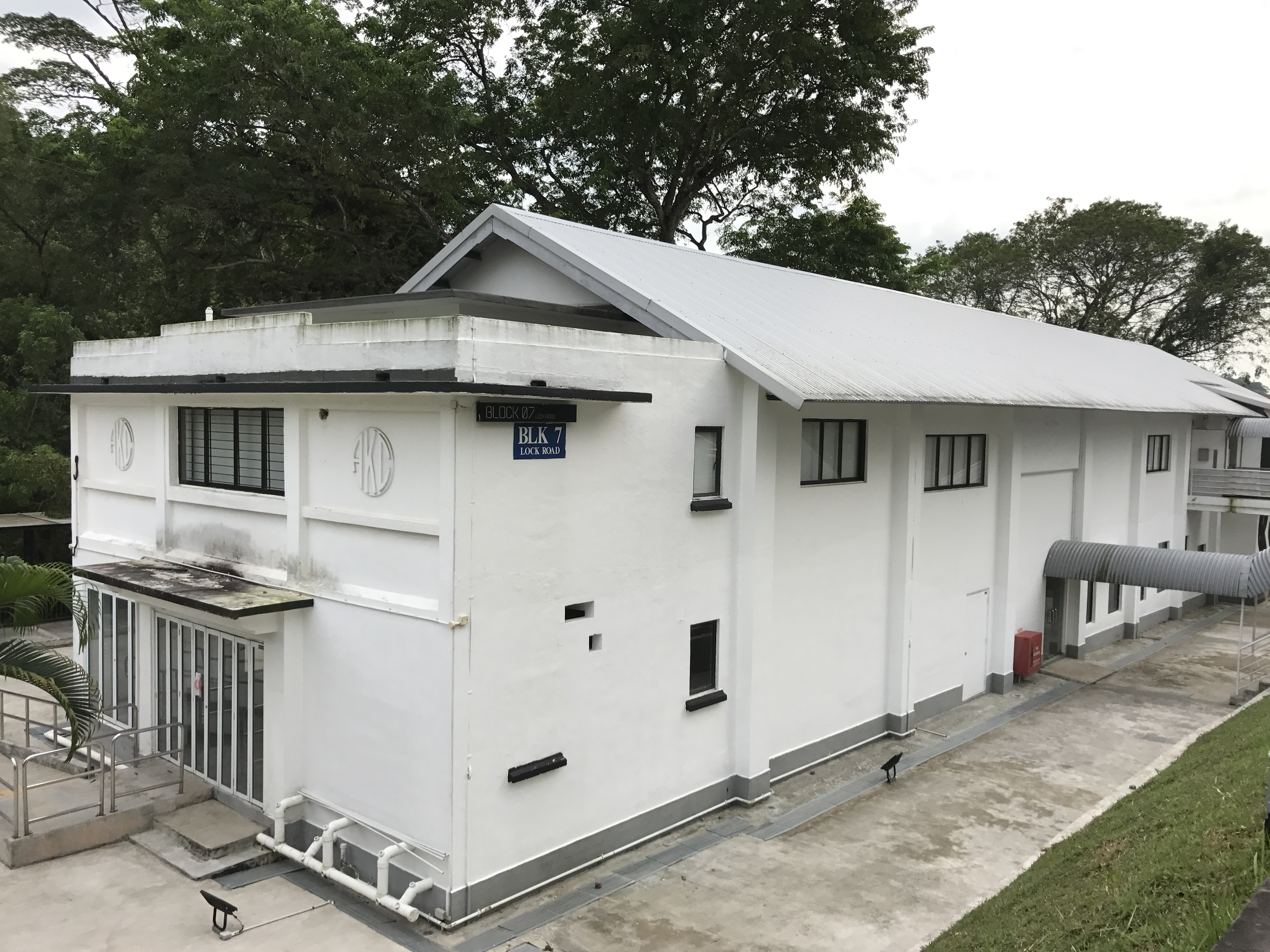 Previously known as the Army Kinema Corporation (AKC) during the British's occupancy, it screened movies for the troops' enjoyment and entertainment.